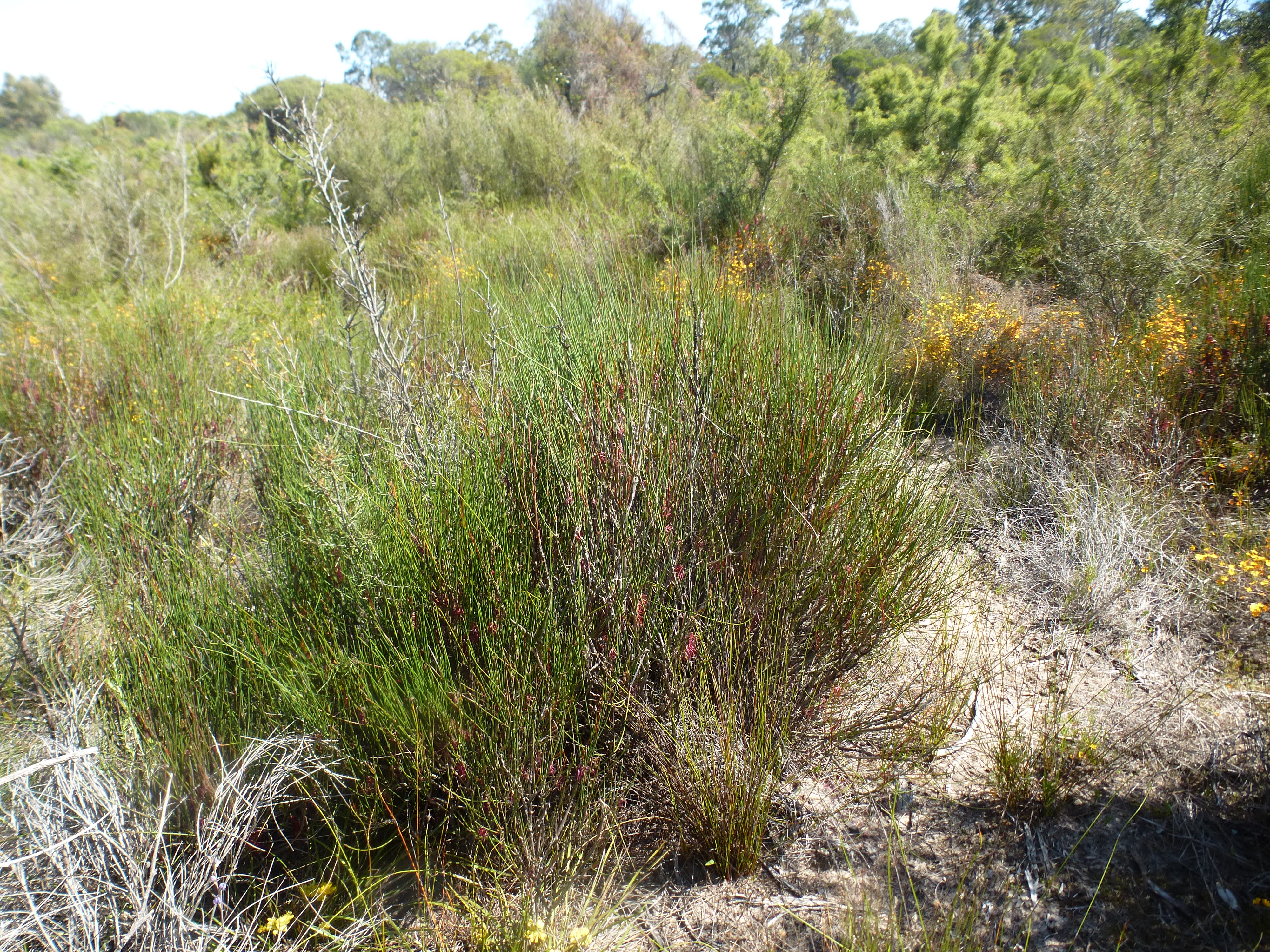 Calothamnus longissimus growing in Manea Park, Bunbury